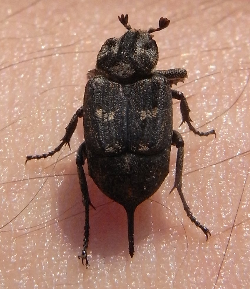 Female Valgus hemipterus from a lawn in Cologne, Germany.